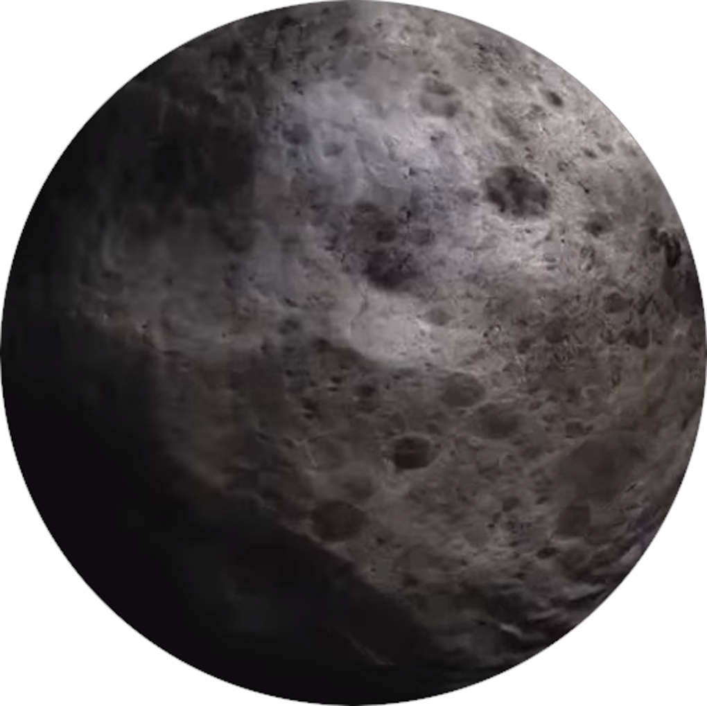 Artist's impression of Eris' moon Dysnomia.